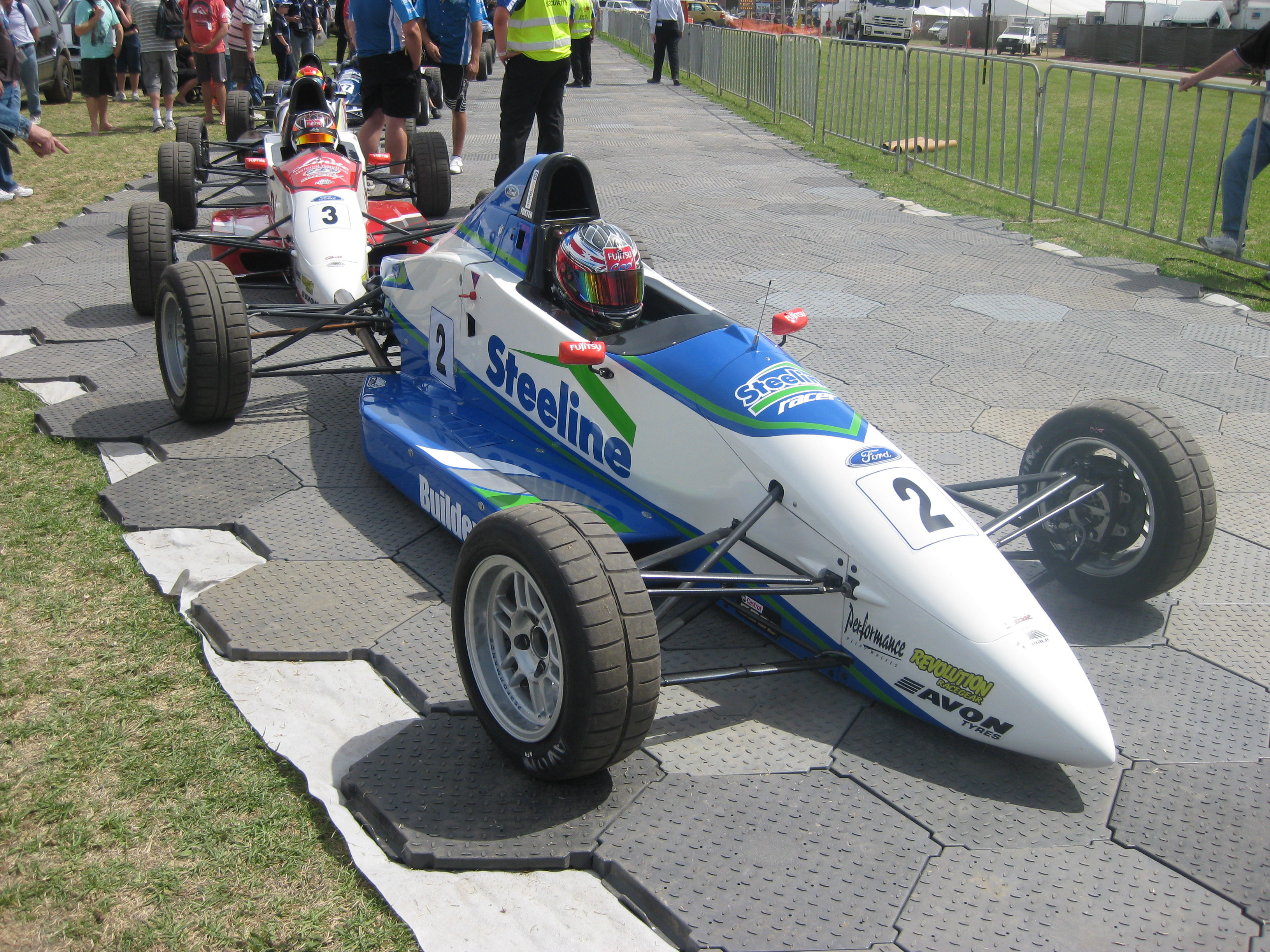 The Mygale SJ011a of Nick Foster at the Adelaide Parklands Circuit for the opening round of the 2011 Australian Formula Ford Championship